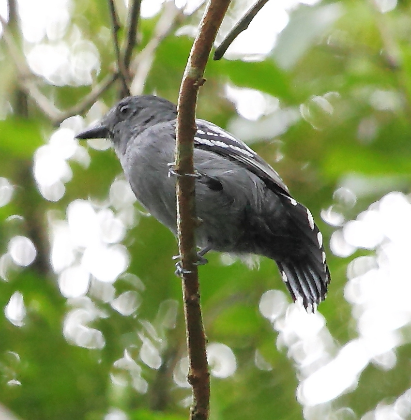 Amazonian Antshrike (male) at Apiacás - MT - Brazil